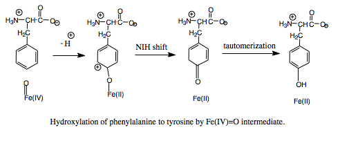 Mechanism for PheOH, part I.